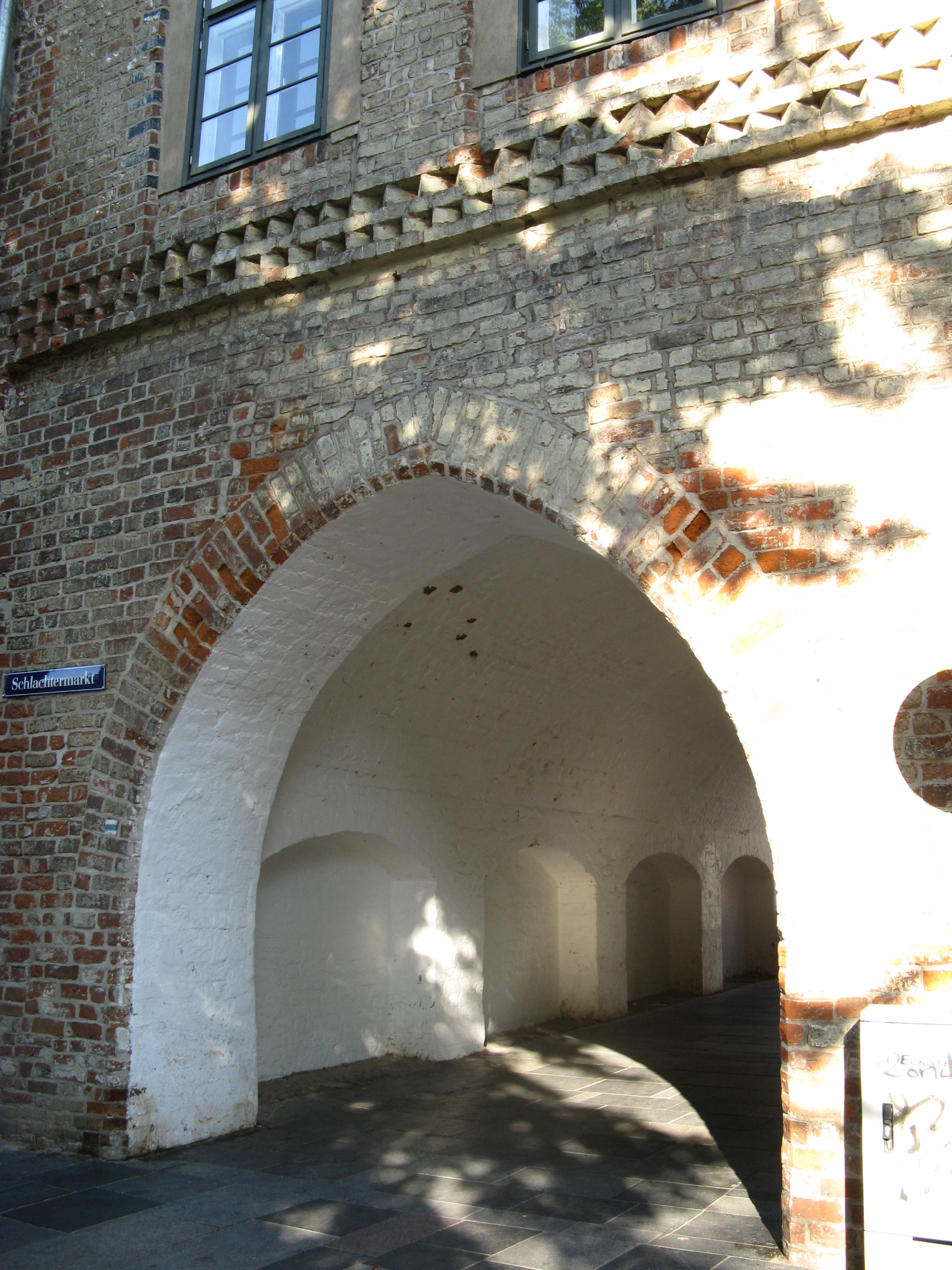 Town hall in Schwerin, Germany from back (eastern) side - gate